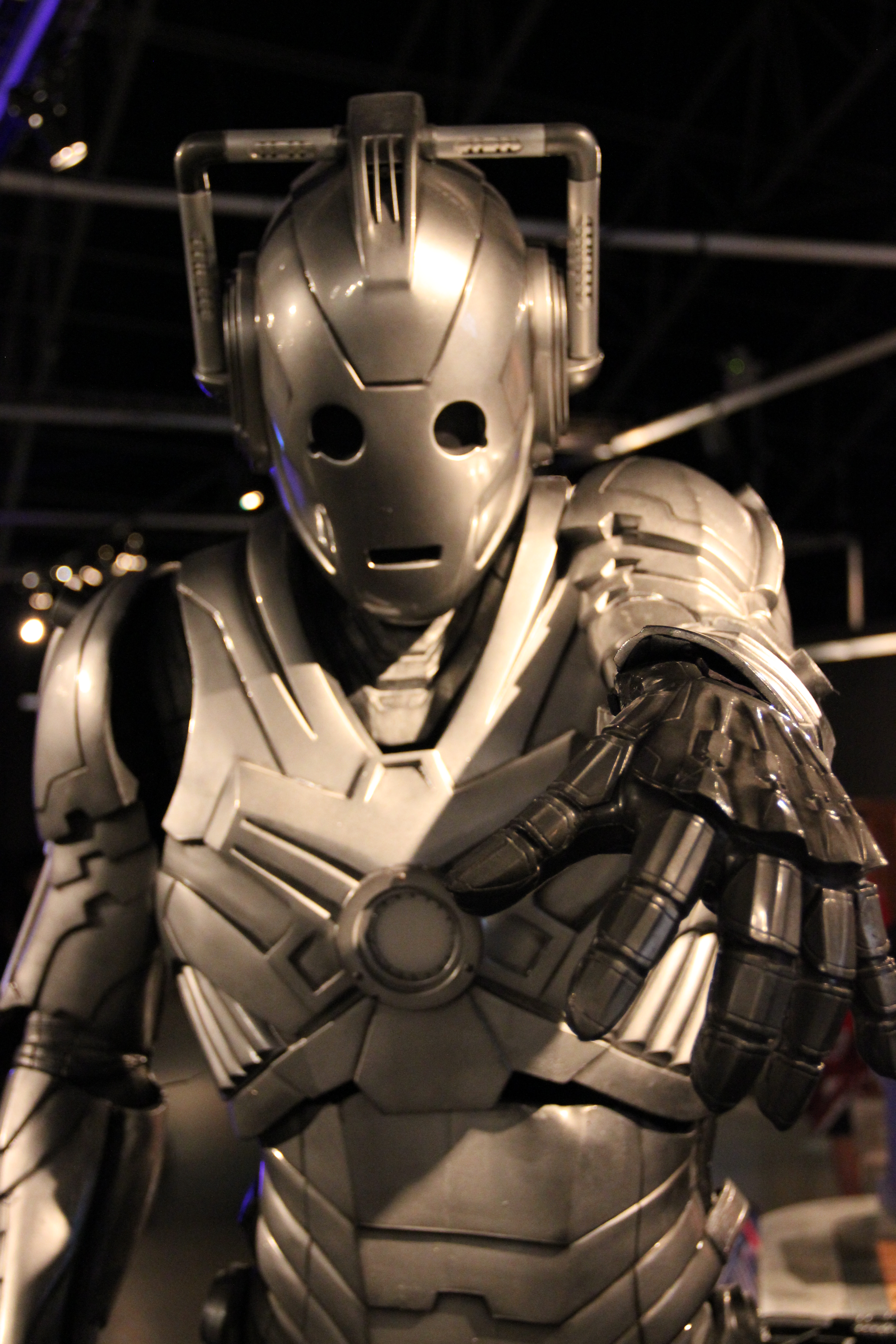 Cybermen Doctor Who Experience